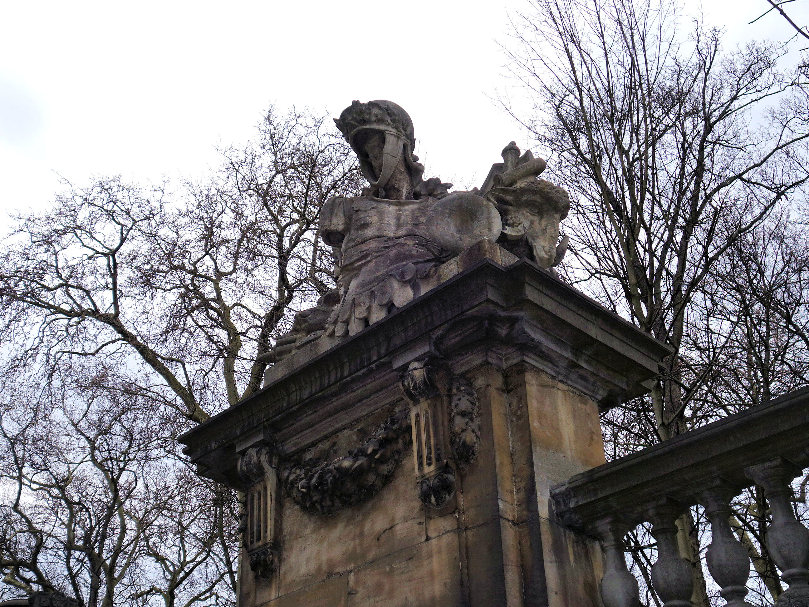 Part of the enclosure of the Royal Palace of Brussels